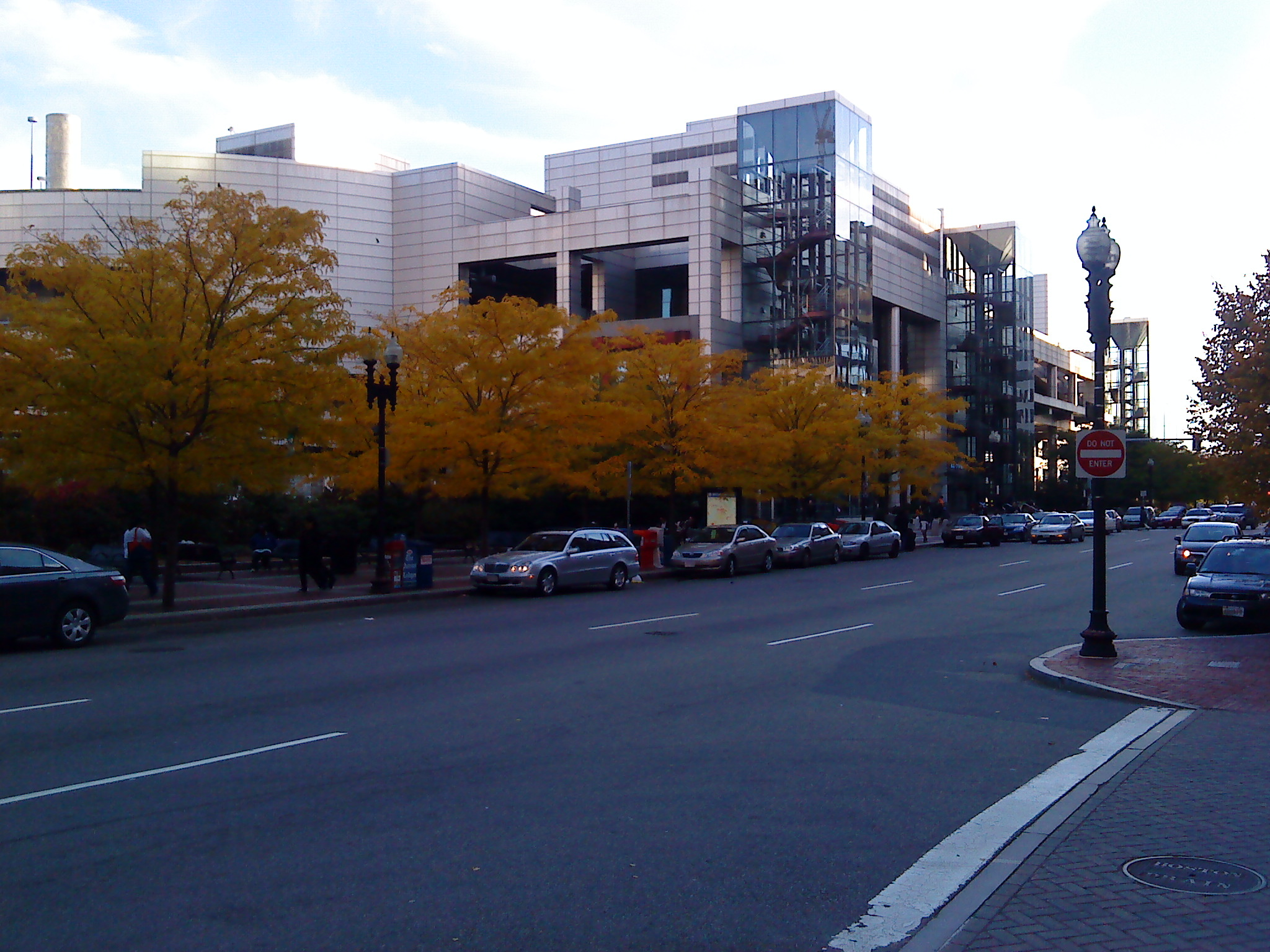 The main bus terminal of Boston from Atlantic Avenue.